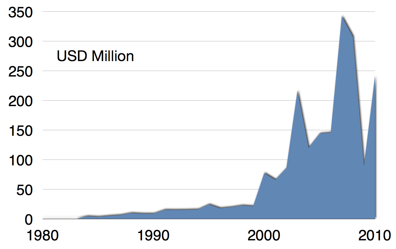 Value in USD million of aquacultured New Zealand green-lipped mussel, Perna canalicula, from 1980 to 2010 as reported by the FAO. Data source FAO fisheries